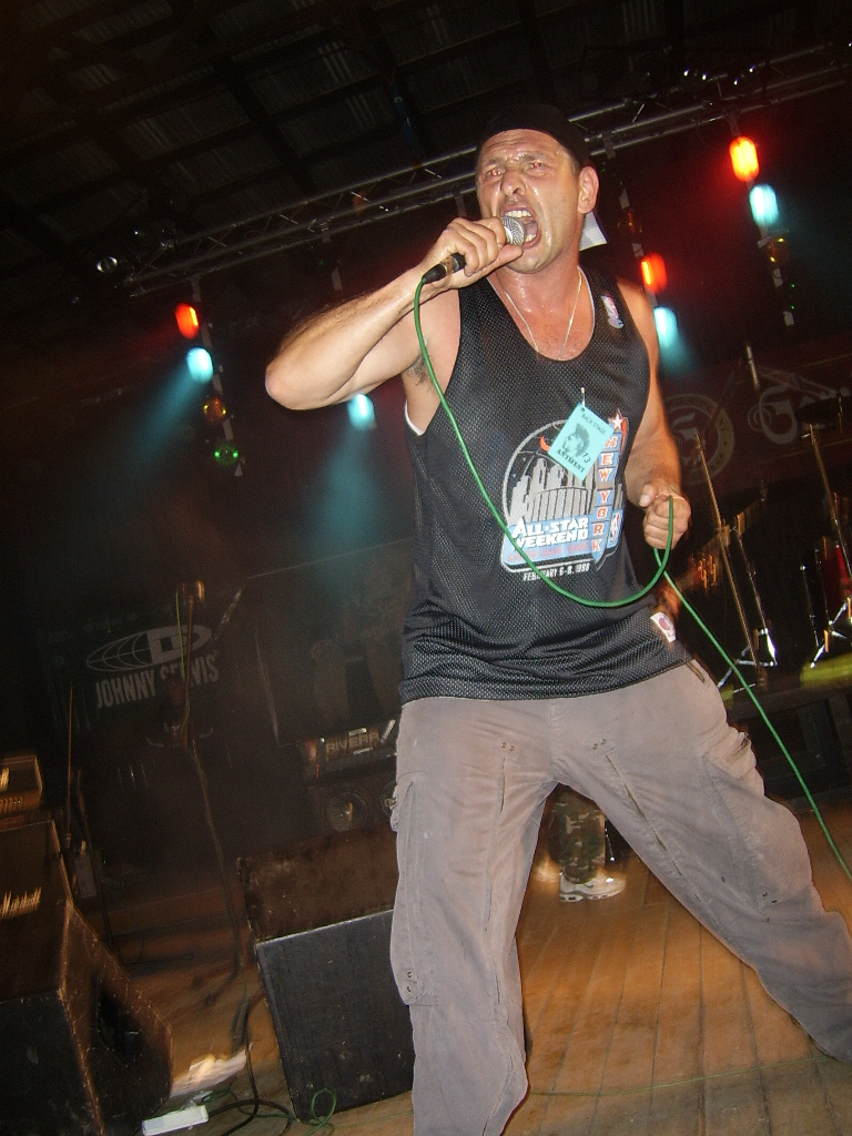 Jeff Geggus AKA Jeff Turner at Cockney Rejects concert at Antifest in Czech Republic